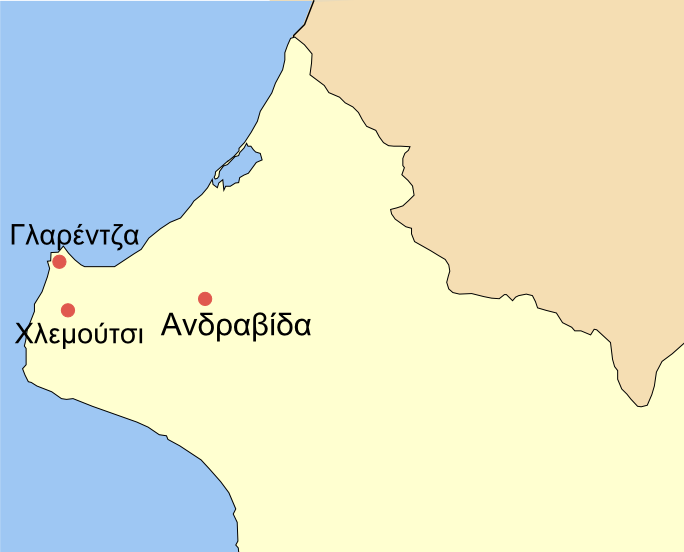 The position of the medieval town of Clarence or Clarentia or Glarentza (Γλαρέντζα), Kastro and Andravida on the map of Elis